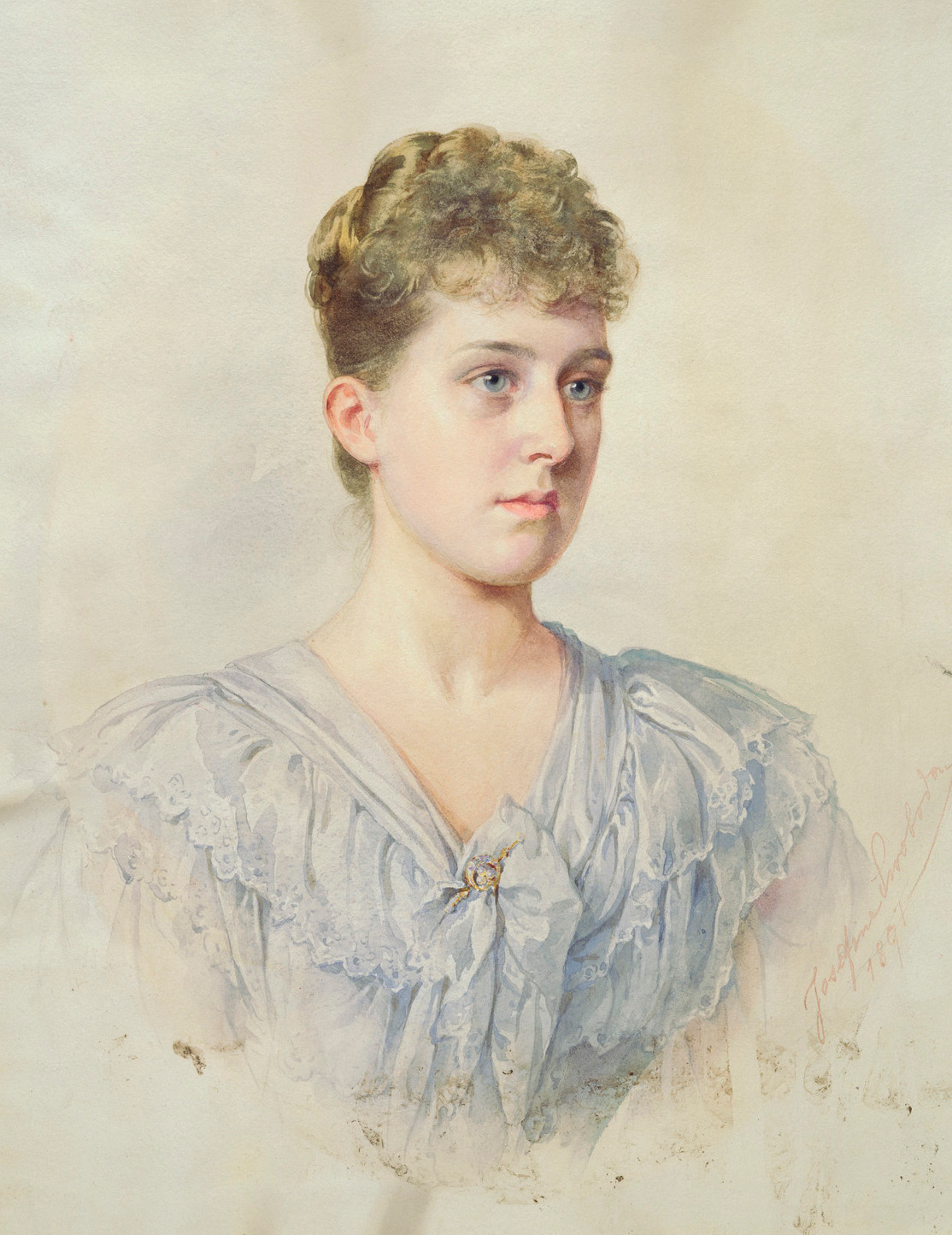 Portrait of Princess Marie Louise of Schleswig-Holstein